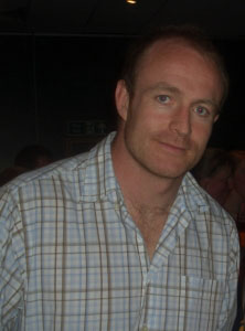 Photo of the Irish rugby union player Denis Hickie taken after Leinster's final Celtic League match in Edinburgh in May 2006